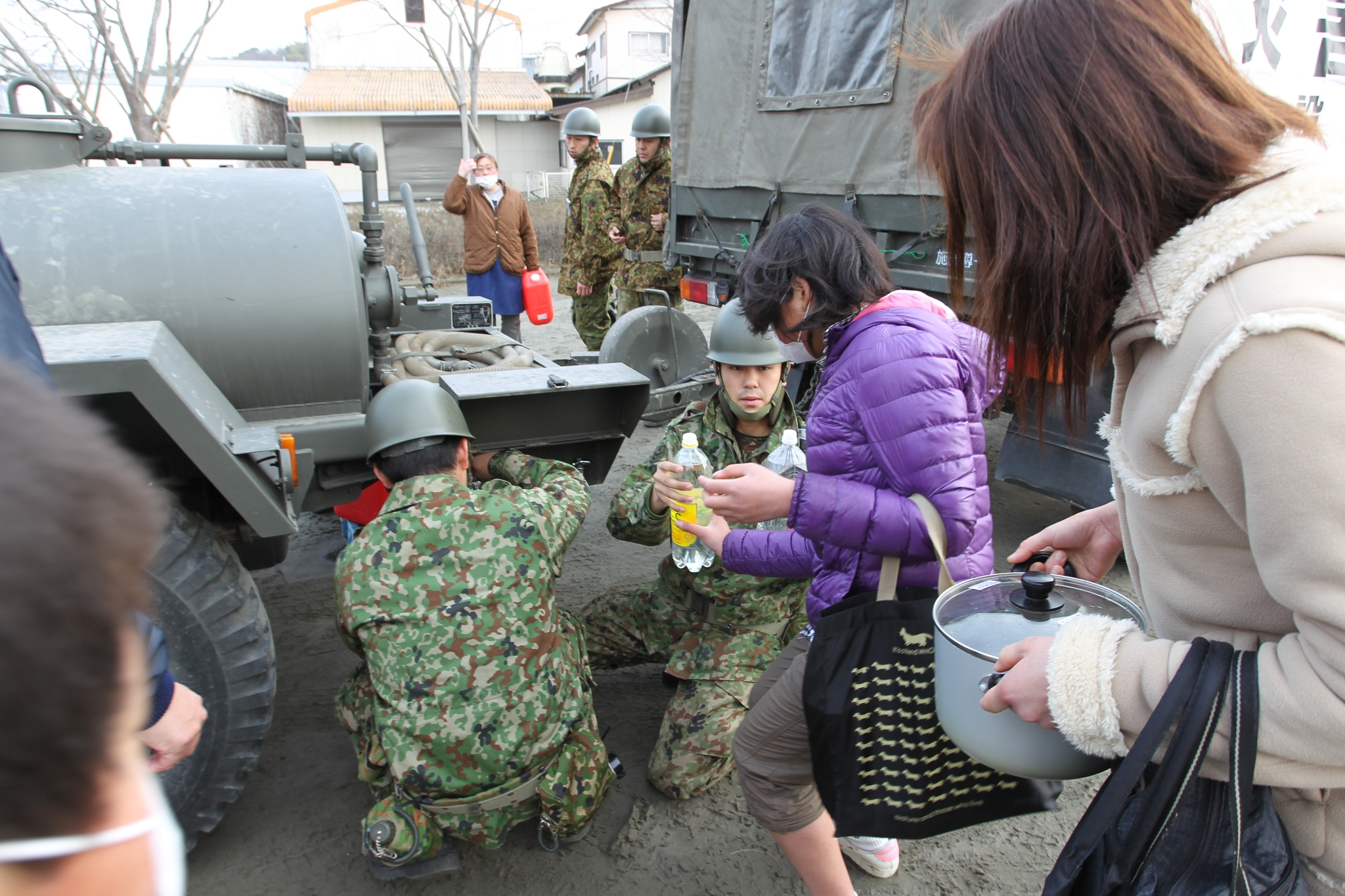 Title 23.3.15 施設教導隊：給水支援⑥.JPG Album 東日本大震災における災害派遣活動 給水支援活動